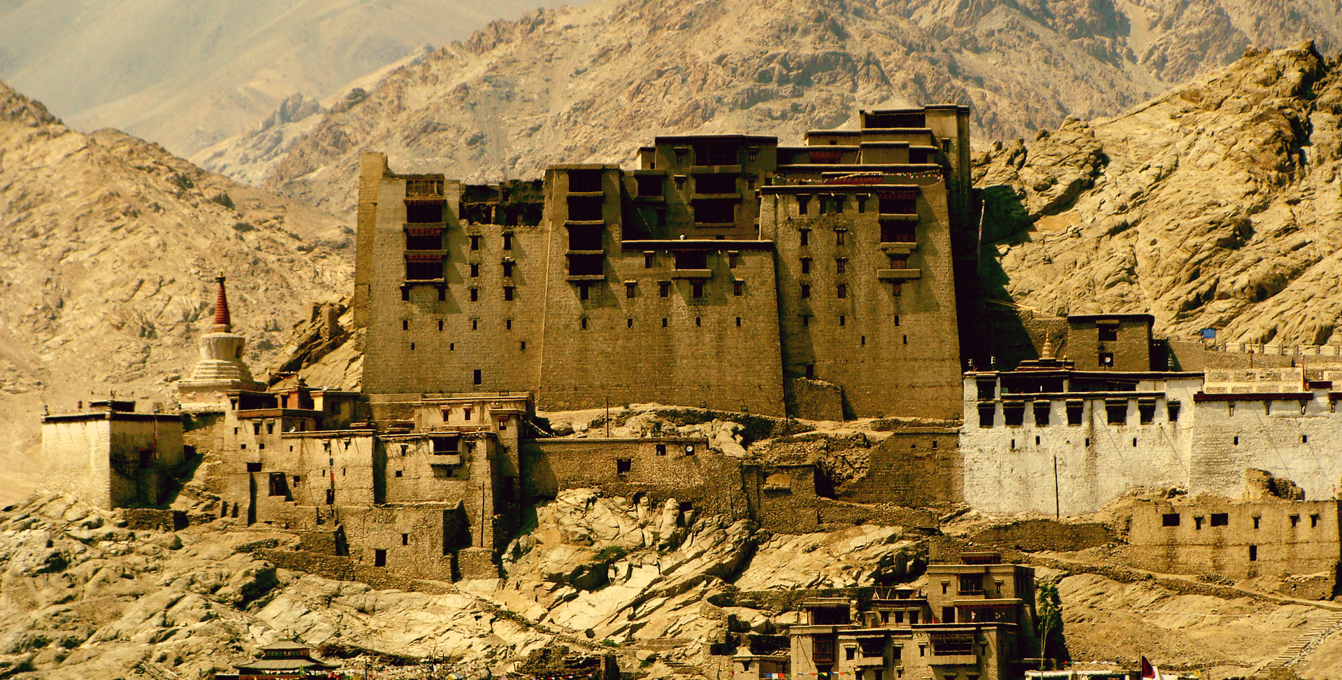 The royal family moved to Stok Palace. Leh Palace is nine storeys high; the upper floors accommodated the royal family, the stables and store rooms were in the lower floors. The palace, a ruin, is currently being restored by the Archaeological Survey of India. The palace is open to the public and the roof provides panoramic views of Leh and the surrounding areas.